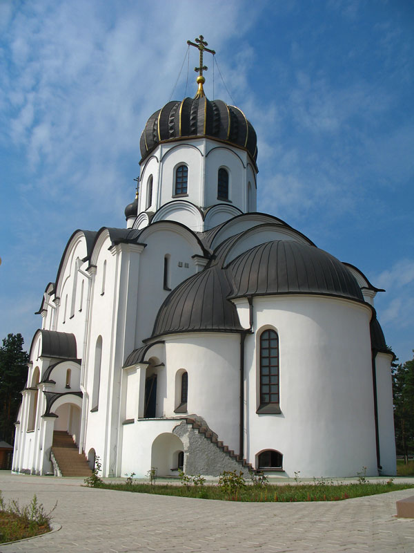 Church of the Birth of Christ in Vialikaje Ściklieva village